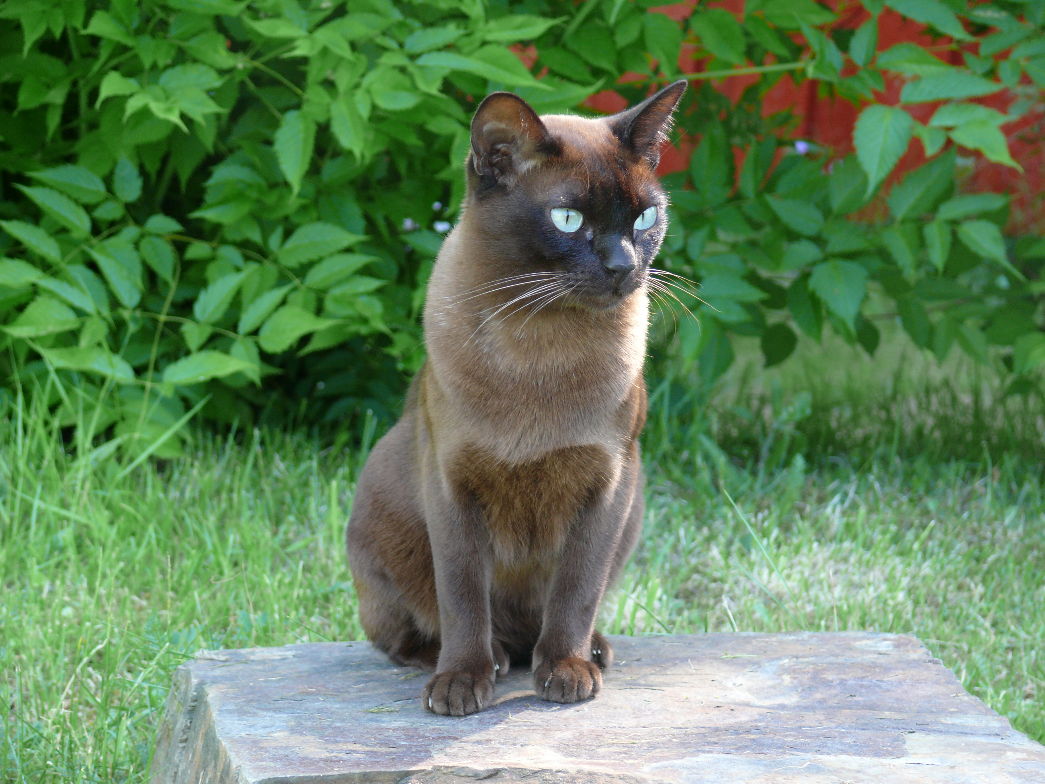 Burmese Cat